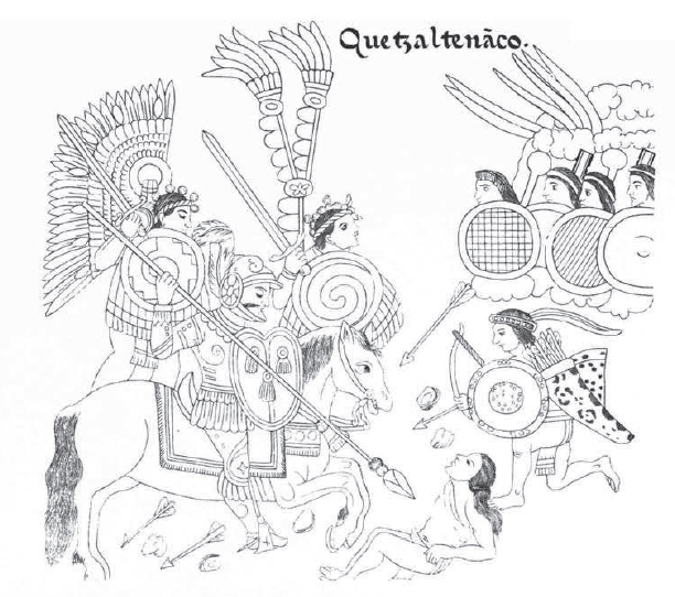 Page from the 16th-century Lienzo de Tlaxcala (reproduction from 1892) showing the Spanish conquest of Quetzaltenaco (Quetzaltenango, in Guatemala).